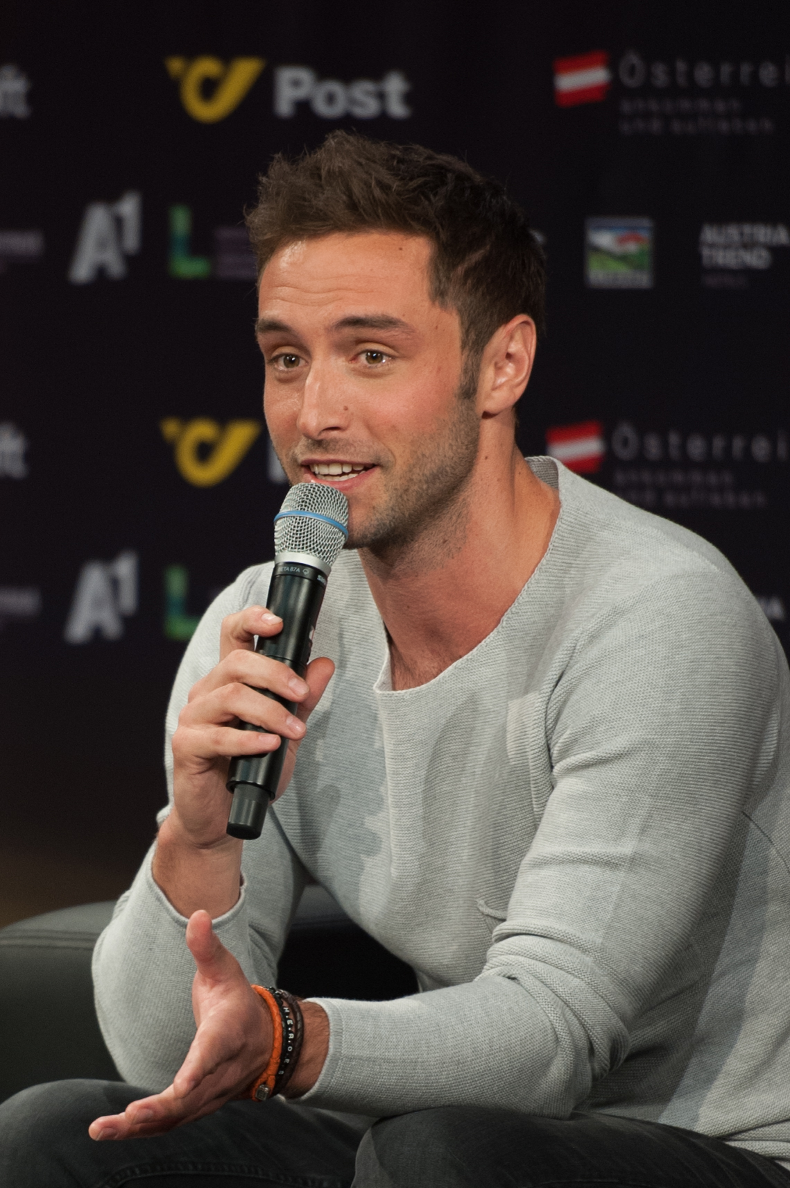 Eurovision Song Contest Vienna 2015: Måns Zelmerlöw